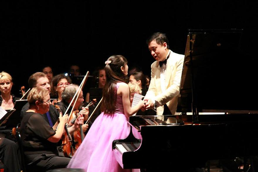 Dan Wen Wei and Umi Garret after a public concert in Music Fest Perugia